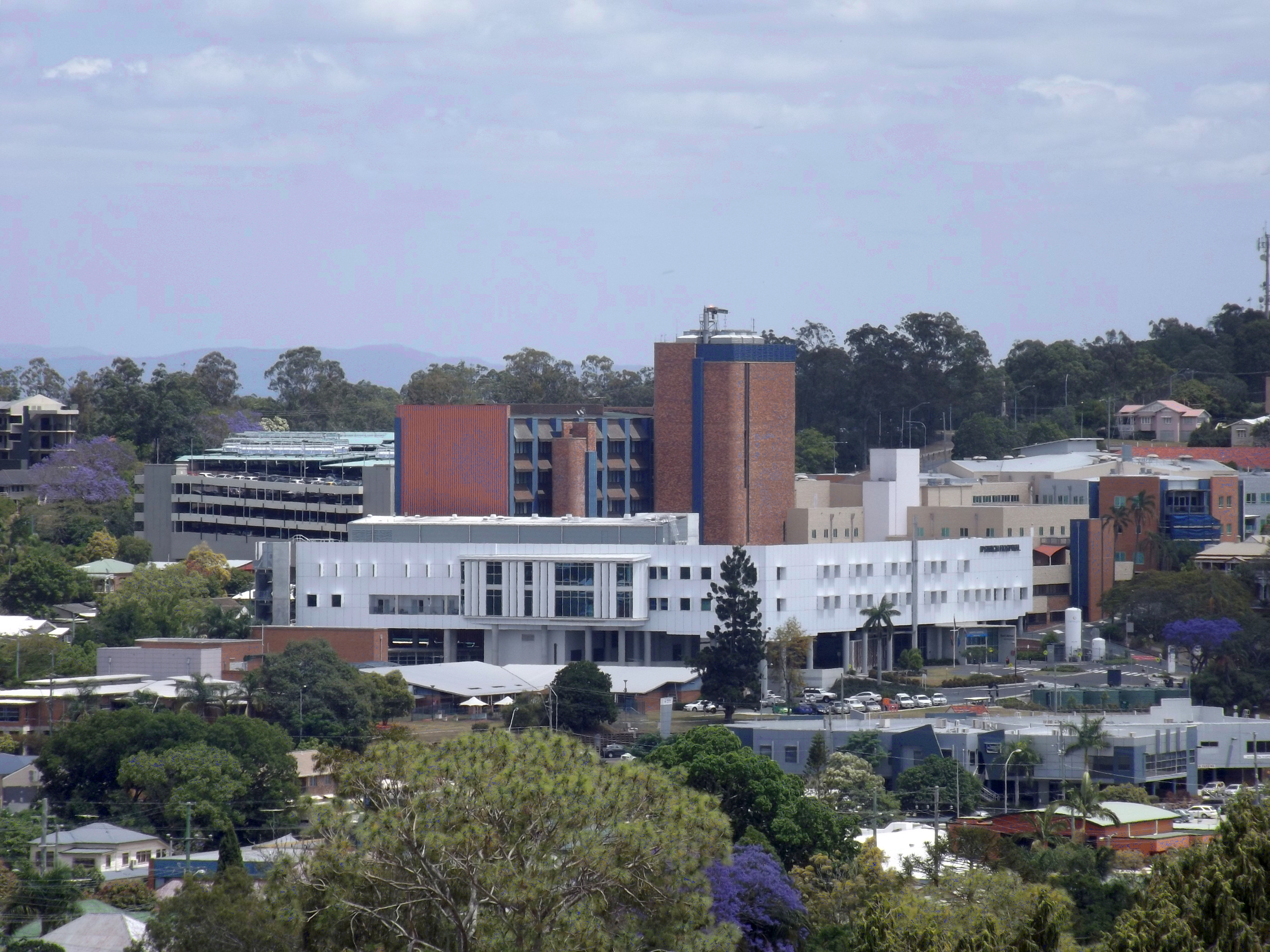 Photo of Ipswich Hospital in Ipswich, Queensland, Australia.